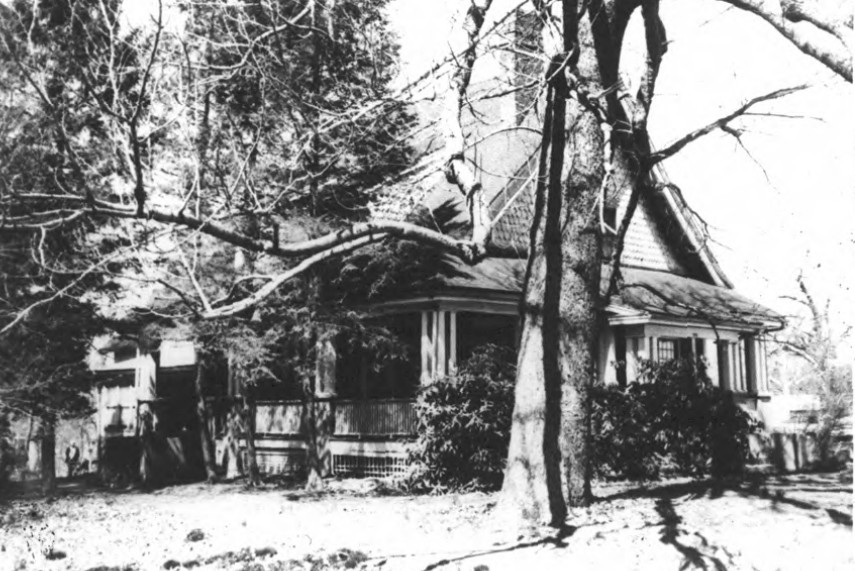 Thomas Demarest House, Englewood, New Jersey. This house has been demolished.